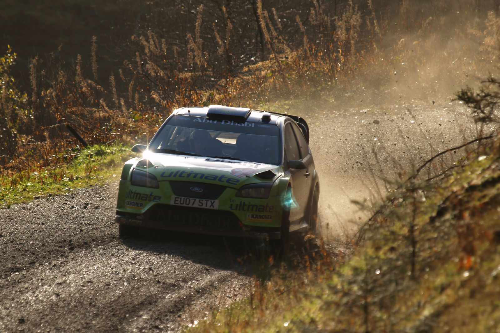 Marcus Grönholm driving his Ford Focus RS WRC 07 during 2007 Wales Rally GB.